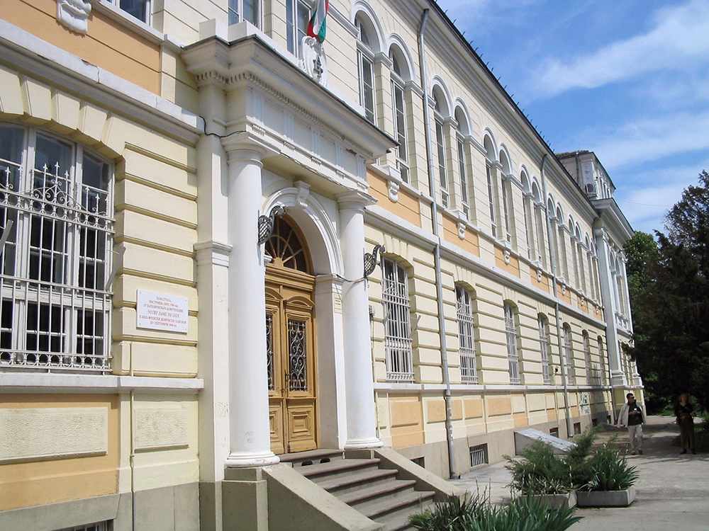 Personal photo of the English language school in Ruse